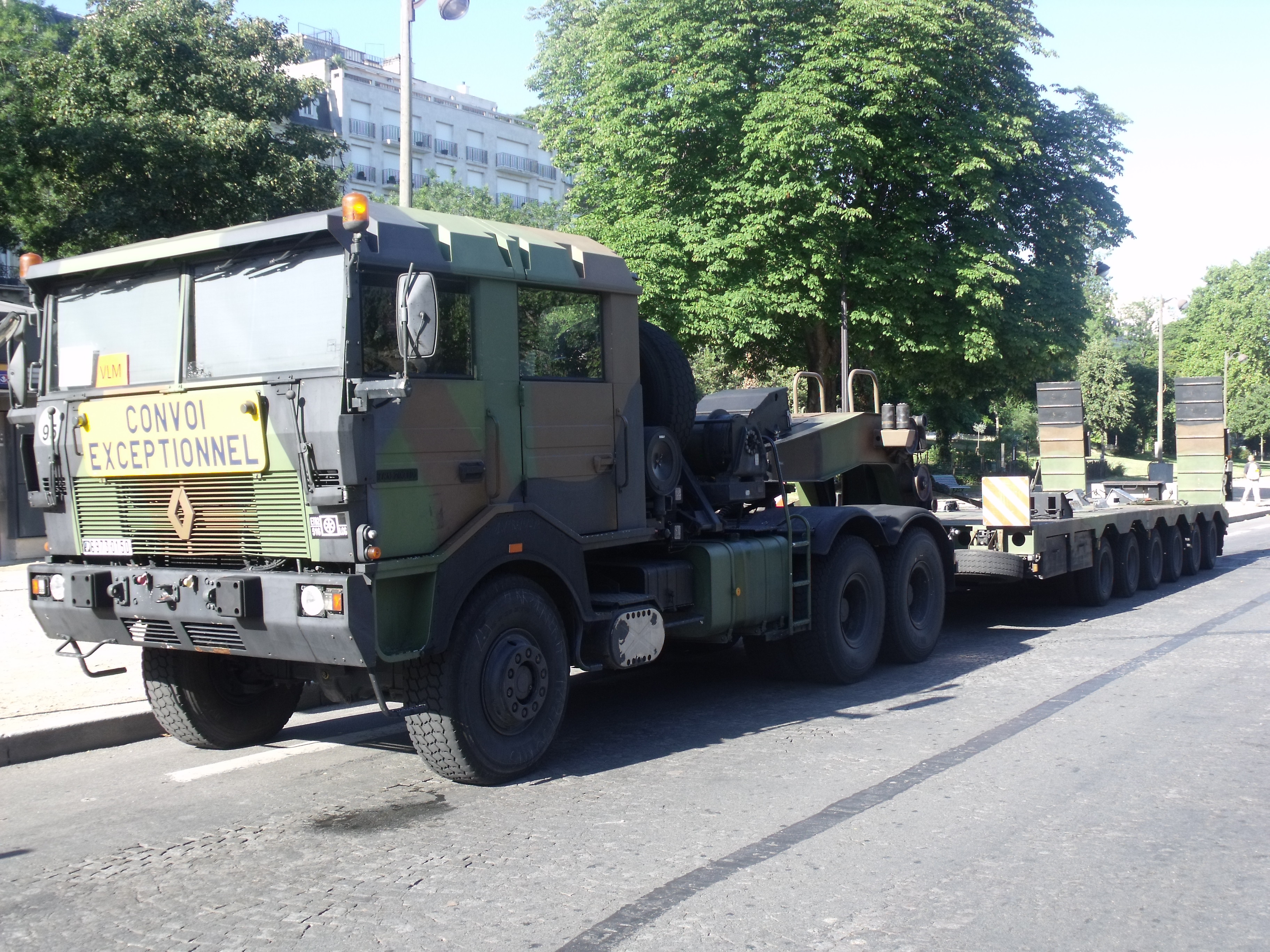 French army heavy truck. Seen here for Bastille Day military parade 2017.